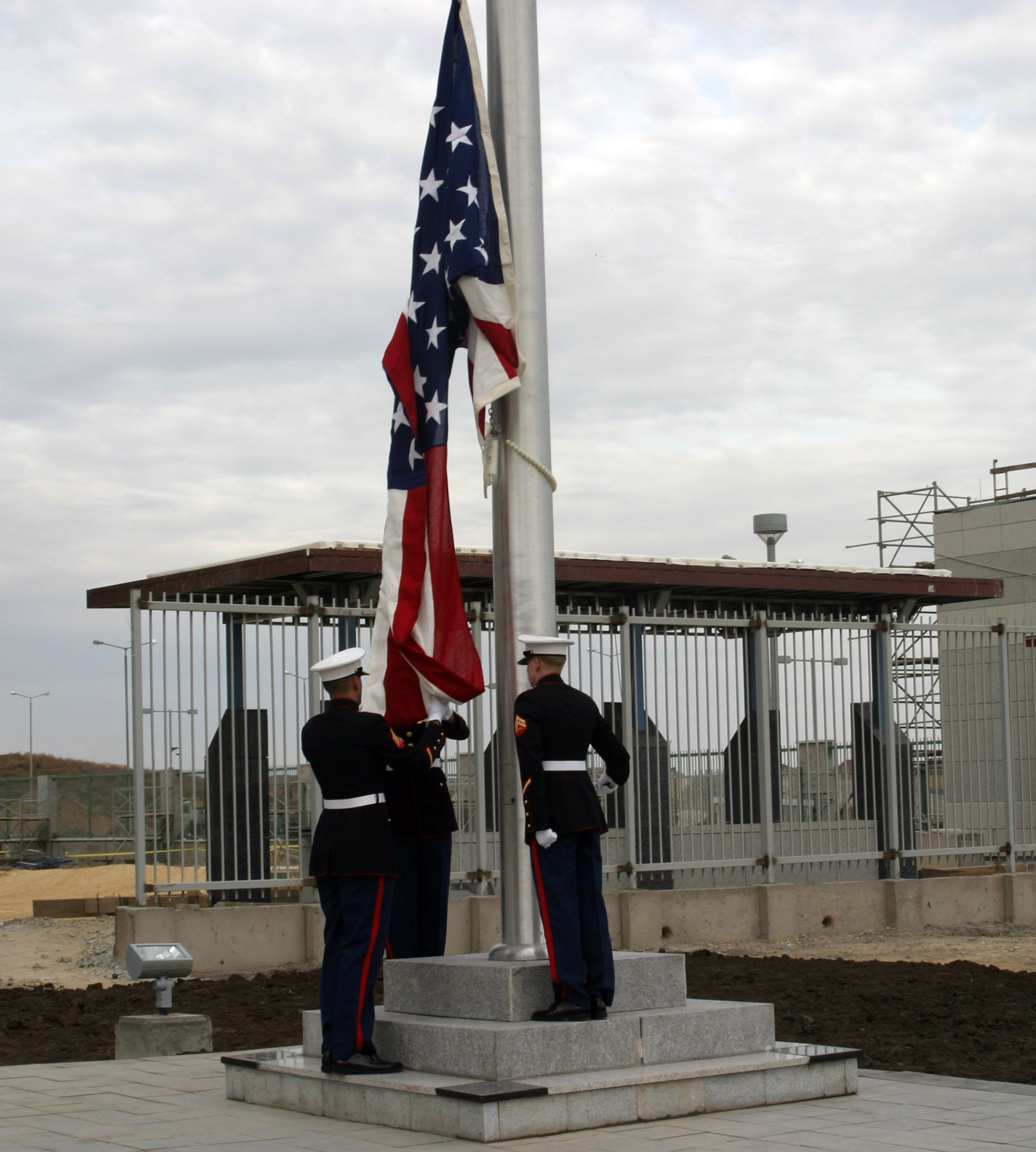 Raising of the US flag at the new American embassy in Nur-Sultan, Kazakhstan